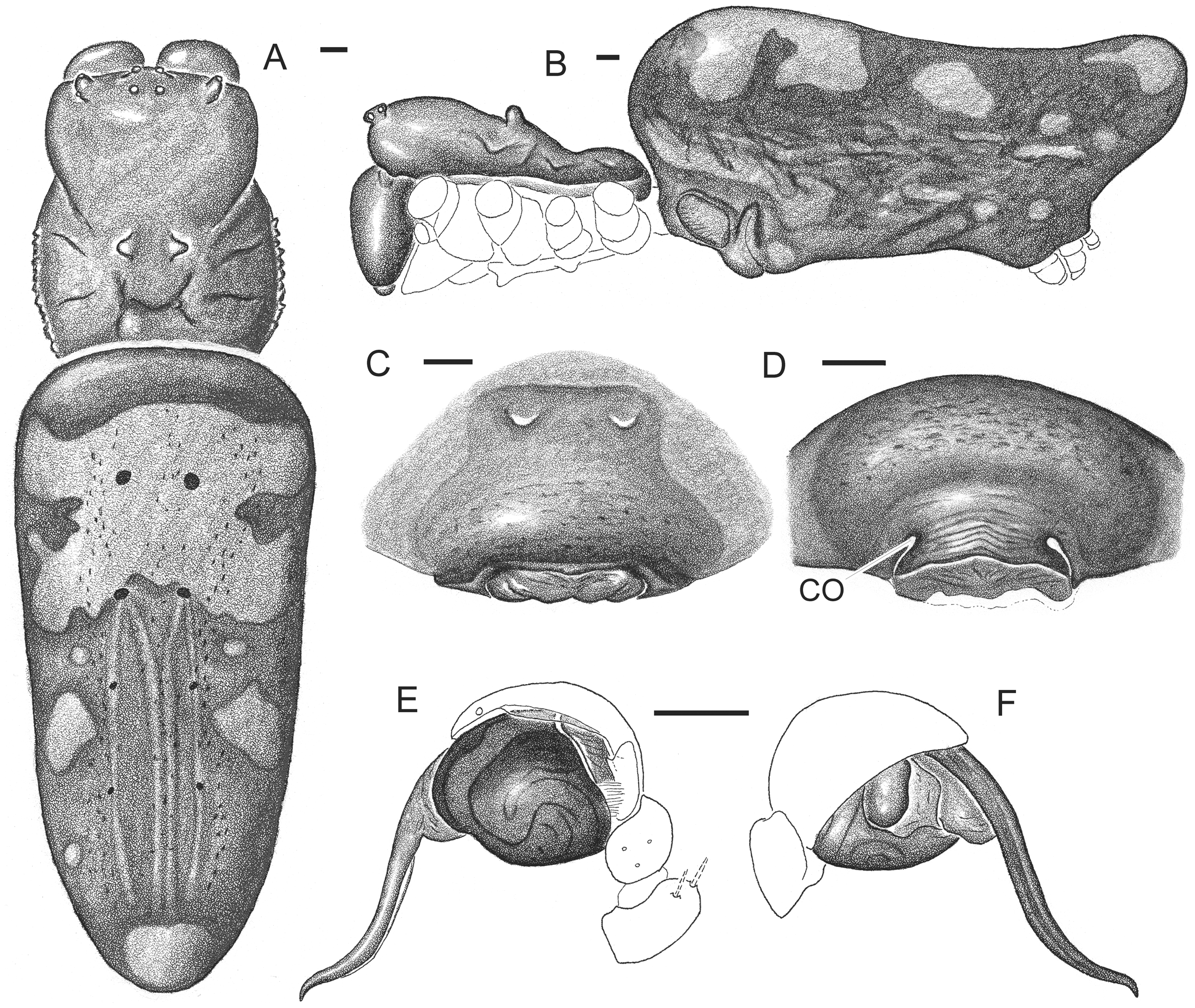 Nephila komaciA–D, Female paratype (from Sodwana Bay, South Africa). A, habitus (legs omitted), dorsal. B, same, lateral. C–D, external epigynal morphology. C, ventral. D, posterior. E–F, male palp (from Zanzibar). E, ectal. F, mesal. Scale bars A–B = 1.0 mm, C–F = 0.5 mm. CO = copulatory opening.